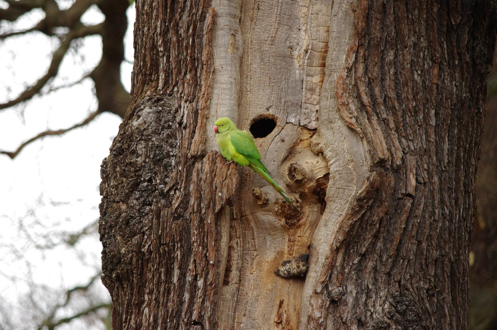 A female Rose-ringed Parakeet in Richmond Park, London, England.